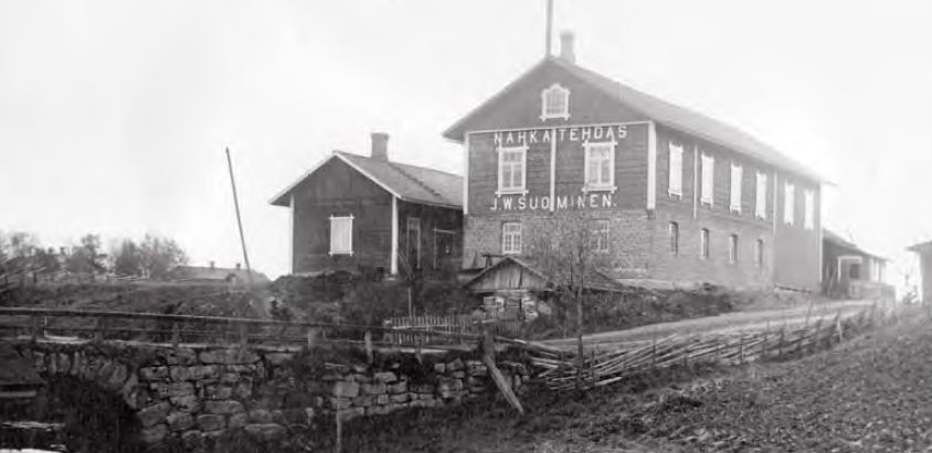 J. W. Suominen leather shop in Nakkila, Finland, in the early 1900s. Today known as the multinational Suominen Corporation.